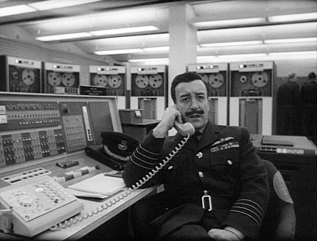 Peter Sellers as Group Captain Lionel Mandrake in Stanley Kubrick's 1964 film, Dr. Strangelove. Sellers is sitting at the console of an IBM 7090 computer with IBM 729 magnetic tape drives in the background.